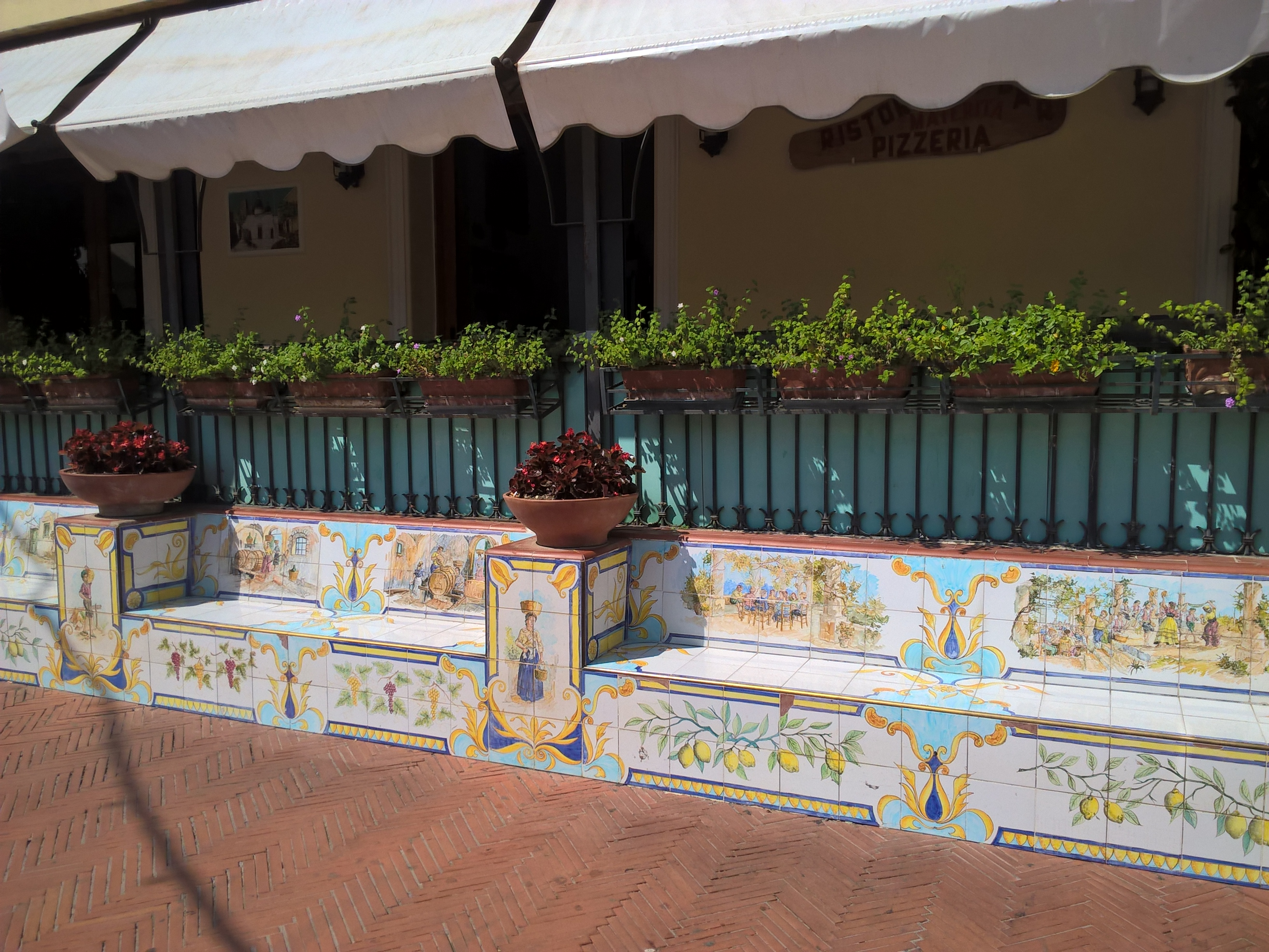 Anacapri, Piazza Diaz, Ceramic Benches, made by Sergio Rubino, 1979